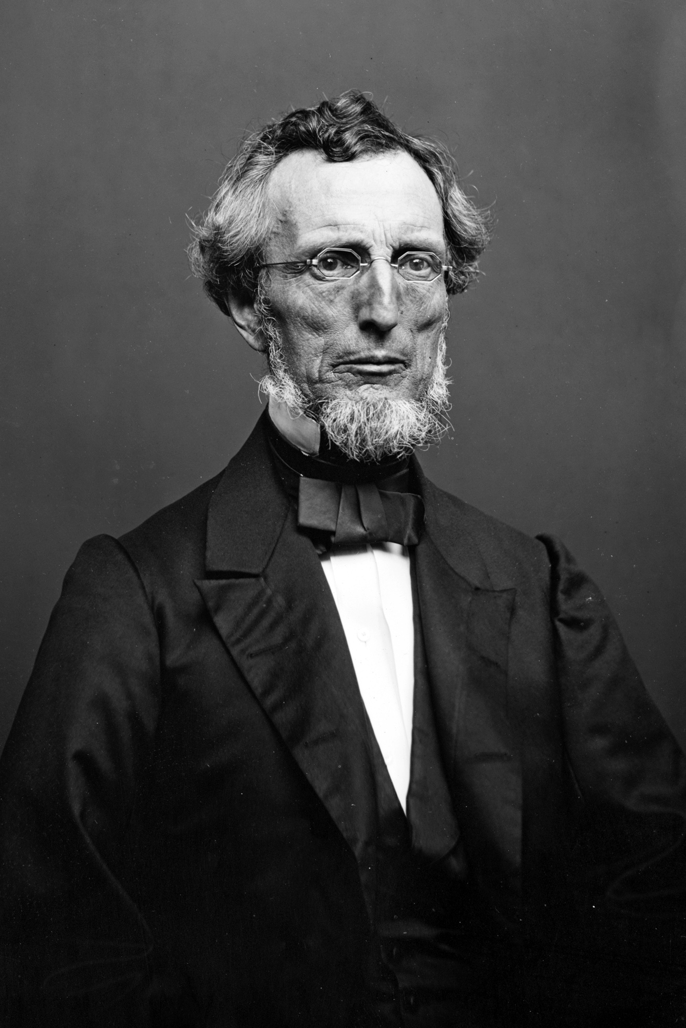 TITLE: Hon. Albert Smith White of Indiana.